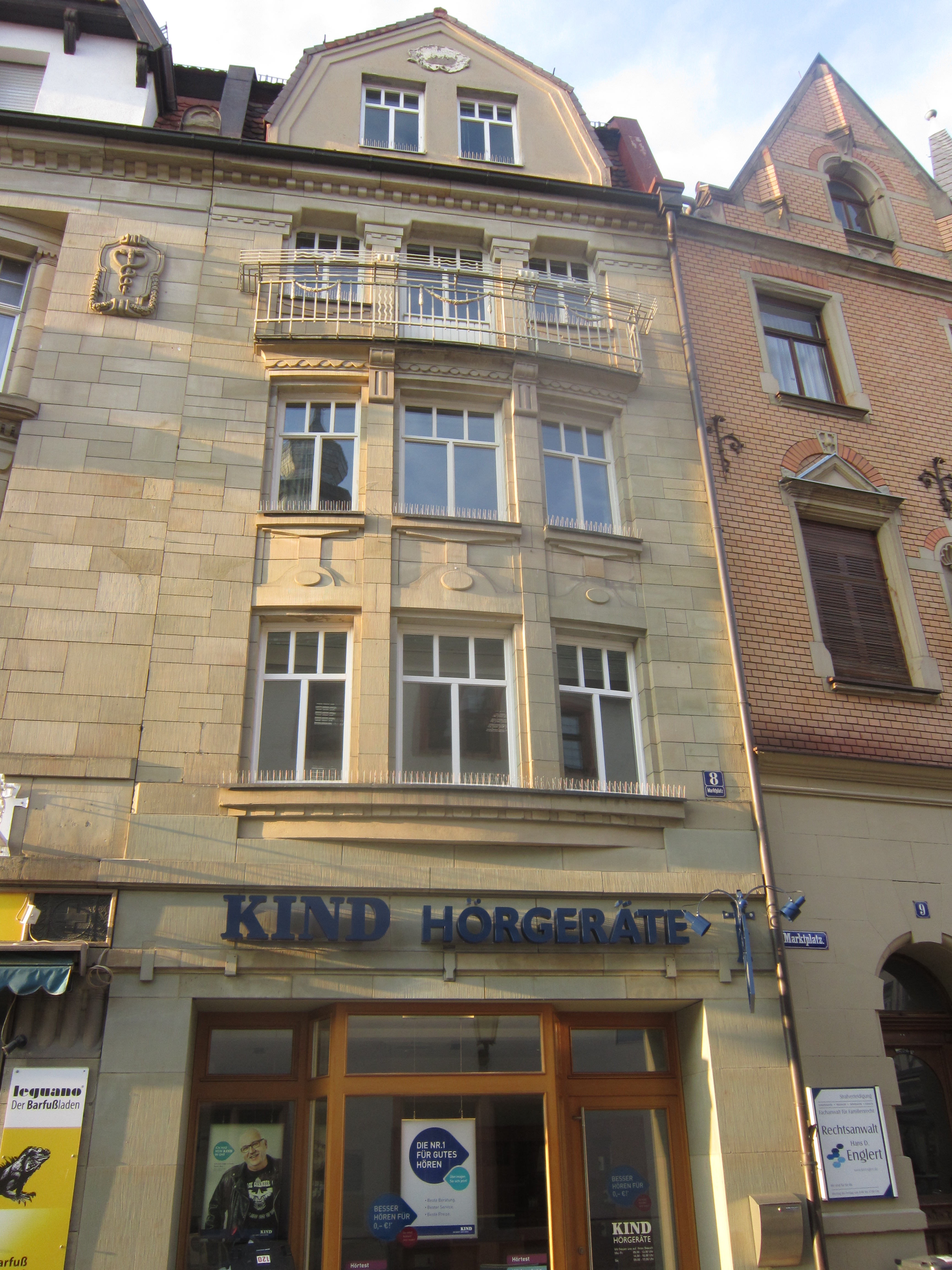 Building in the German spa town of Bad Kissingen in Lower Franconia (Bavaria) (Address: Marktplatz 08).